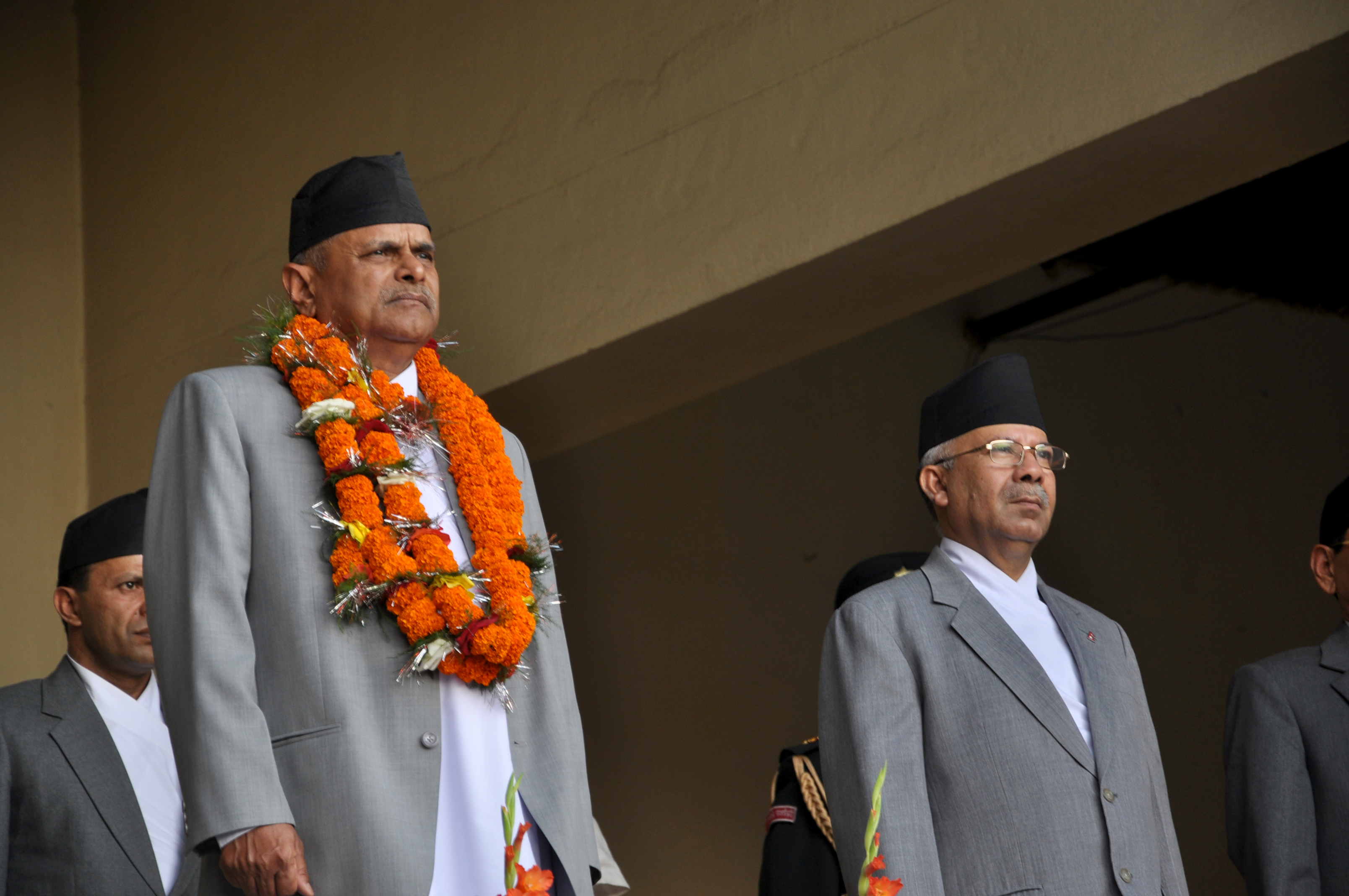 President Ram Varan Yadav with Madhav K Nepal